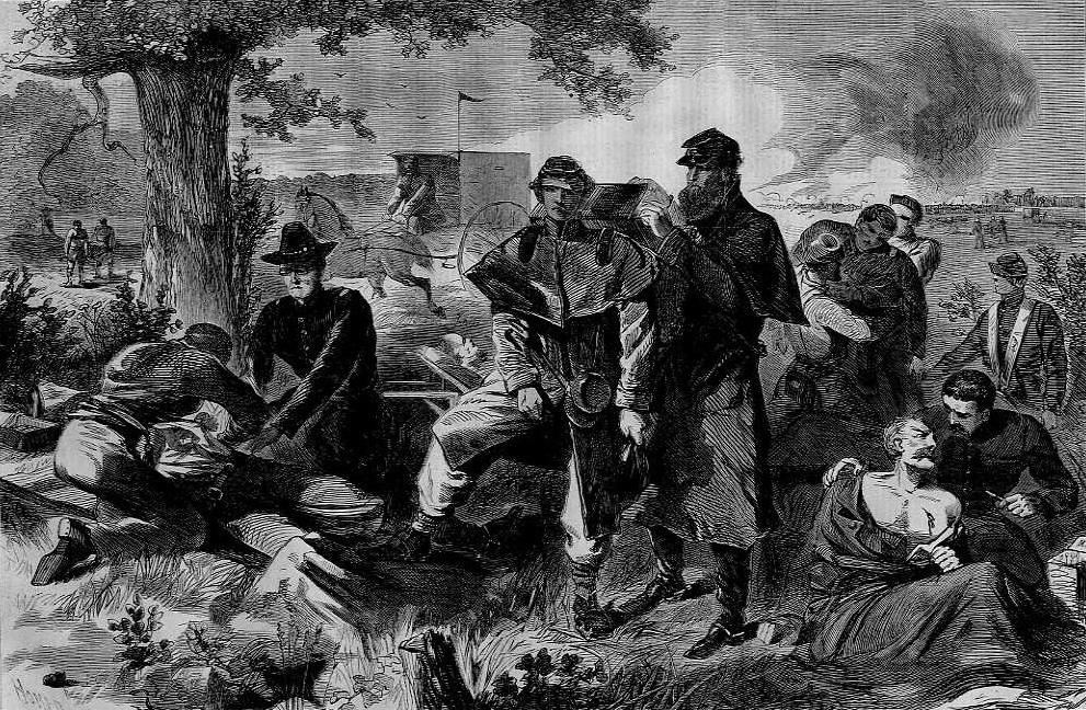 The Surgeon at Work at the Rear During an Engagement, a wood engraving drawn by Winslow Homer and published in Harper's Weekly, July 12, 1862.